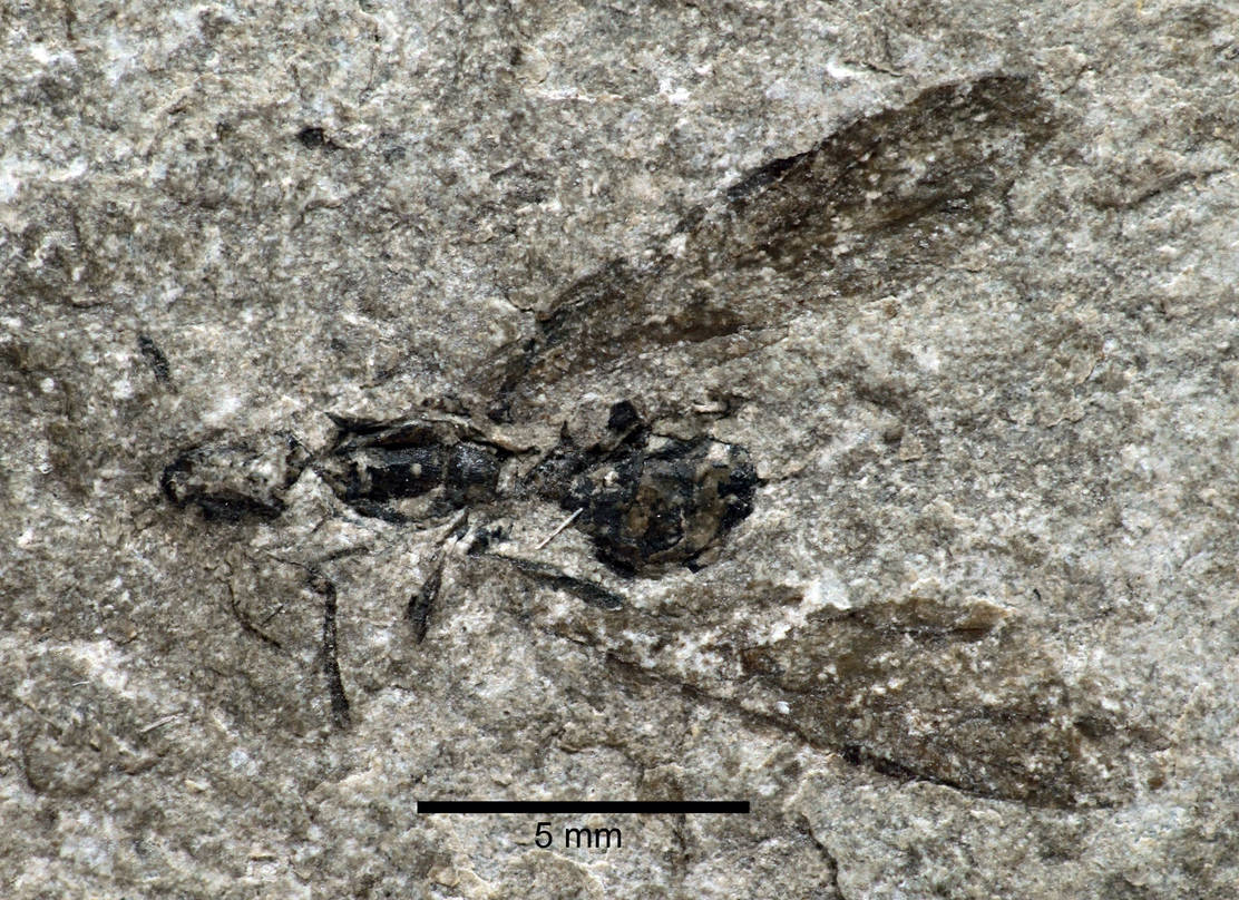 The Attopsis longipennis lectotype queen. Burdigalian; Radoboj deposits; Radoboj area, Krapinsko-Zagorska, Croatia. Universalmuseum Joanneum Graz, Styria, Austria; specimen UMJ210962.